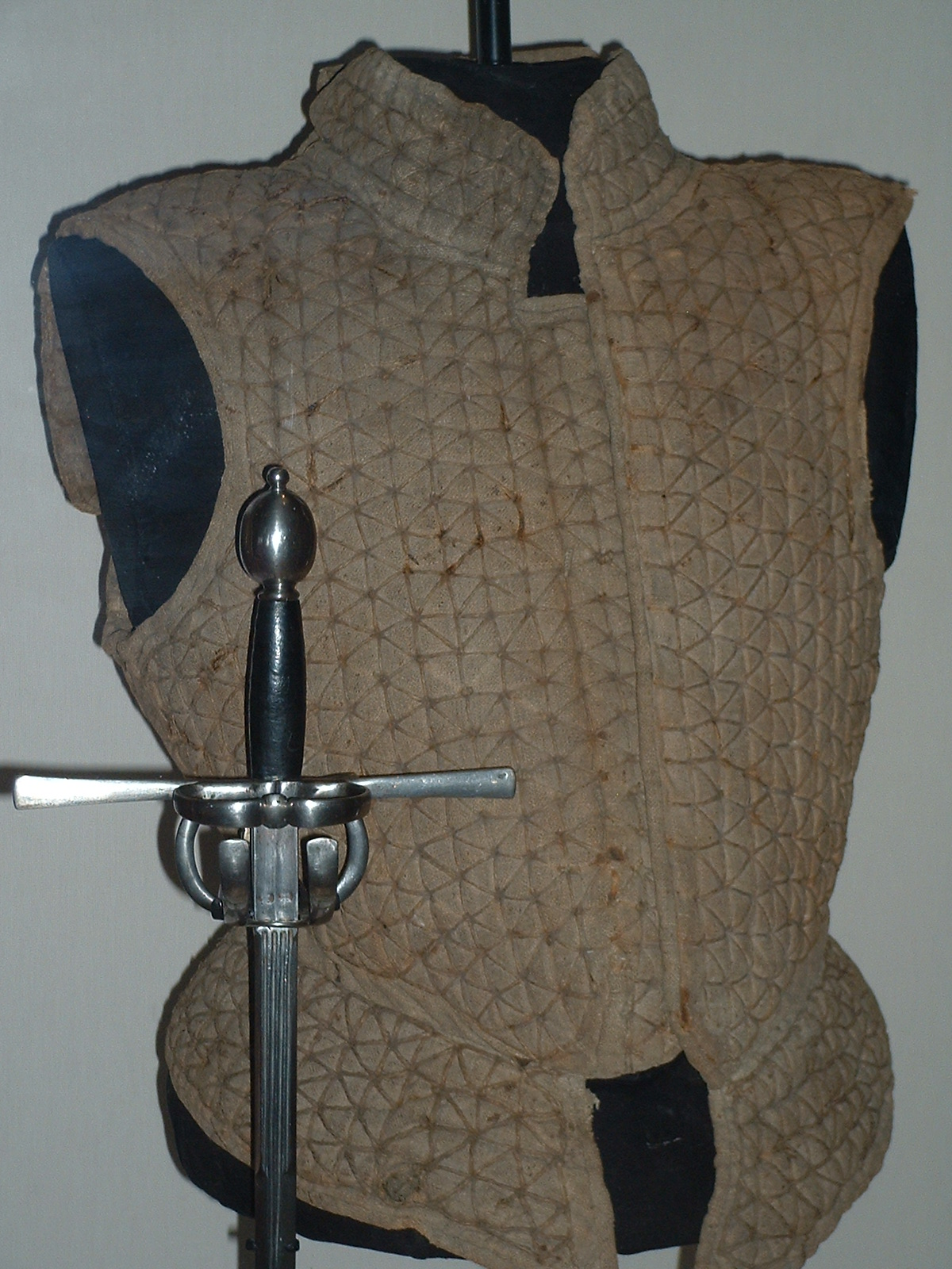 Jack of plate, English or Scottish, c1590, Royal Armoury, Leeds Museum legend reads: Jack of plate English or Scottish, about 1590 Formed of small iron plates sewn between layers of canvas, except for the collar and skirt which are made more flexible by having mail instead of plates. Photographed by me (Gaius Cornelius), at the Royal Armoury, Leeds 08-Jun-06.